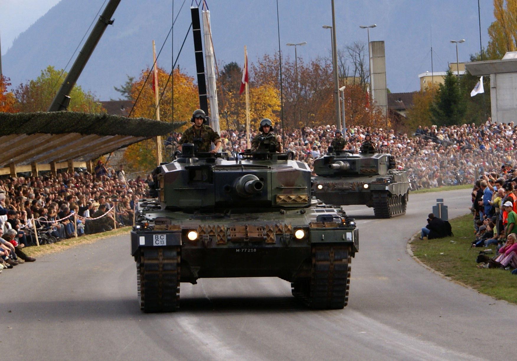 Swiss Army. Leopard 2 / 2A4 main battle tank. Participating in the "Steel Parade" of the 2006 Army Days, Thun.